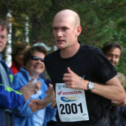 Finnish long-distance runner Janne Holmén at eCross cross-country competition 2006. Photo by Jonny Smeds.